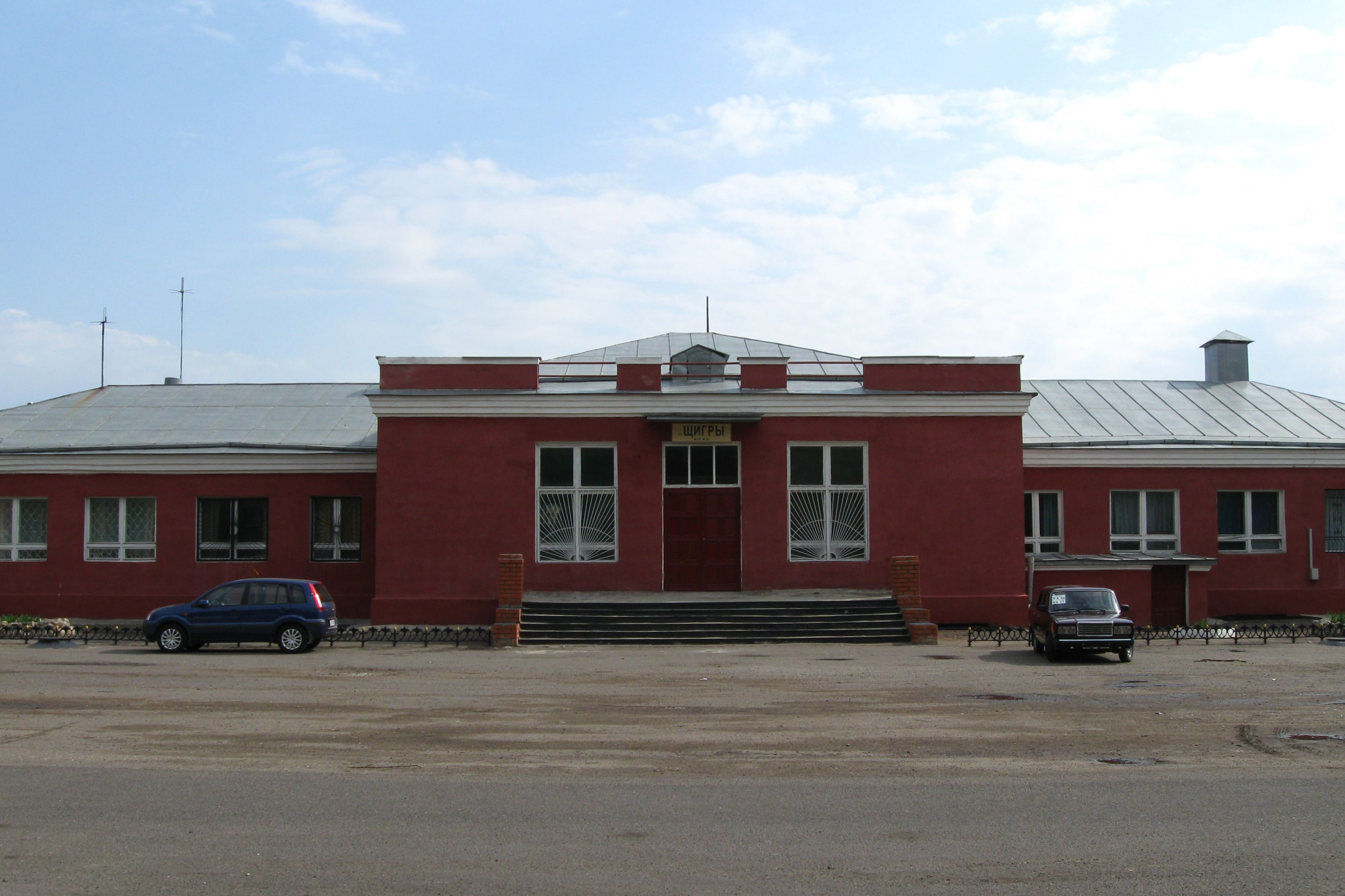 Rear Side of Shchigry Train Station